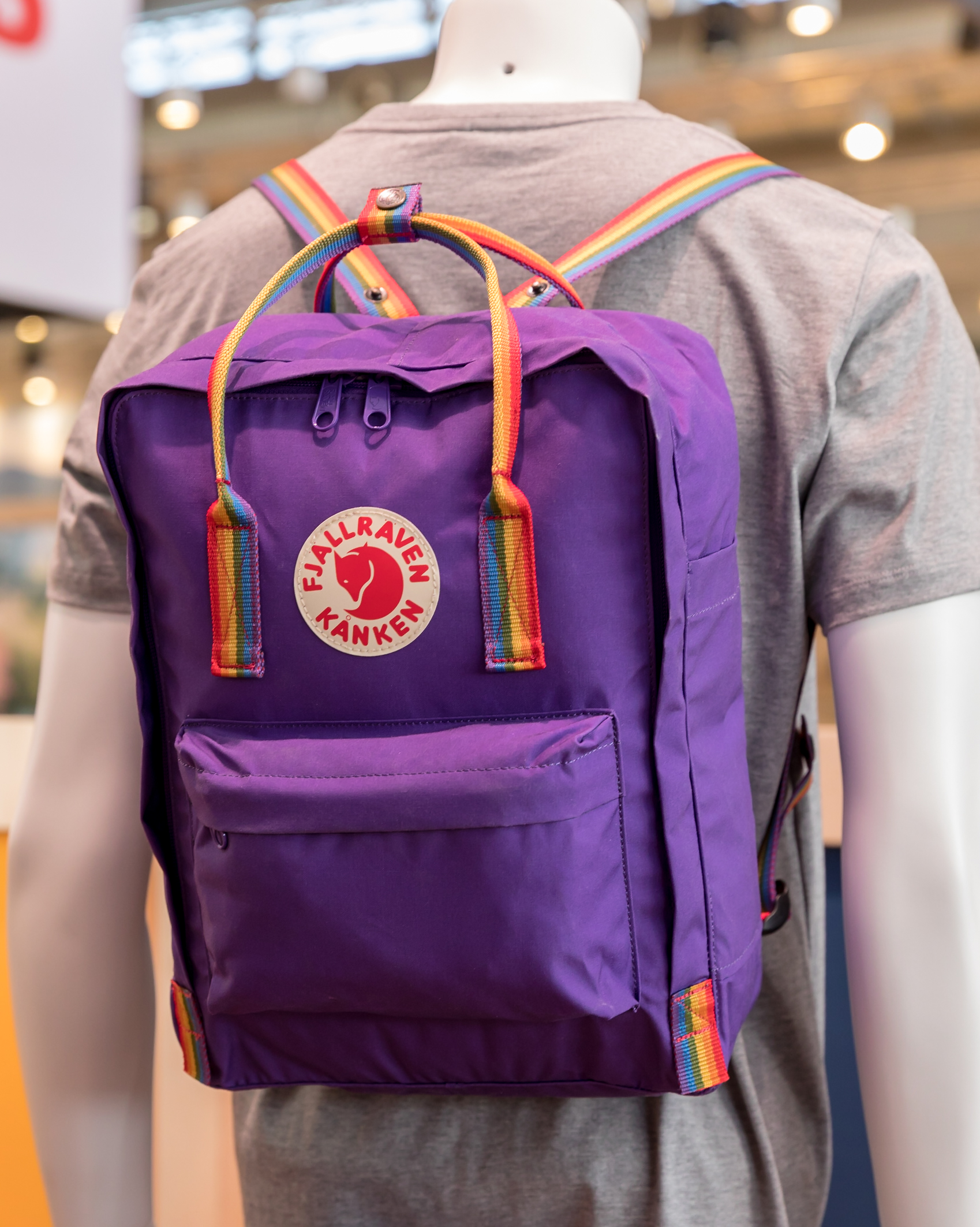 Fjällräven Kånken, OutDoor 2018